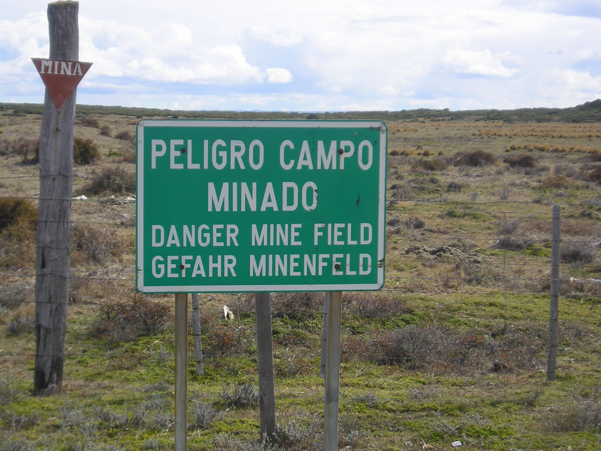 Punta Espora, Chile, Tierra del Fuego side of the Strait of Magellan - minefield warning near the ferry terminal.